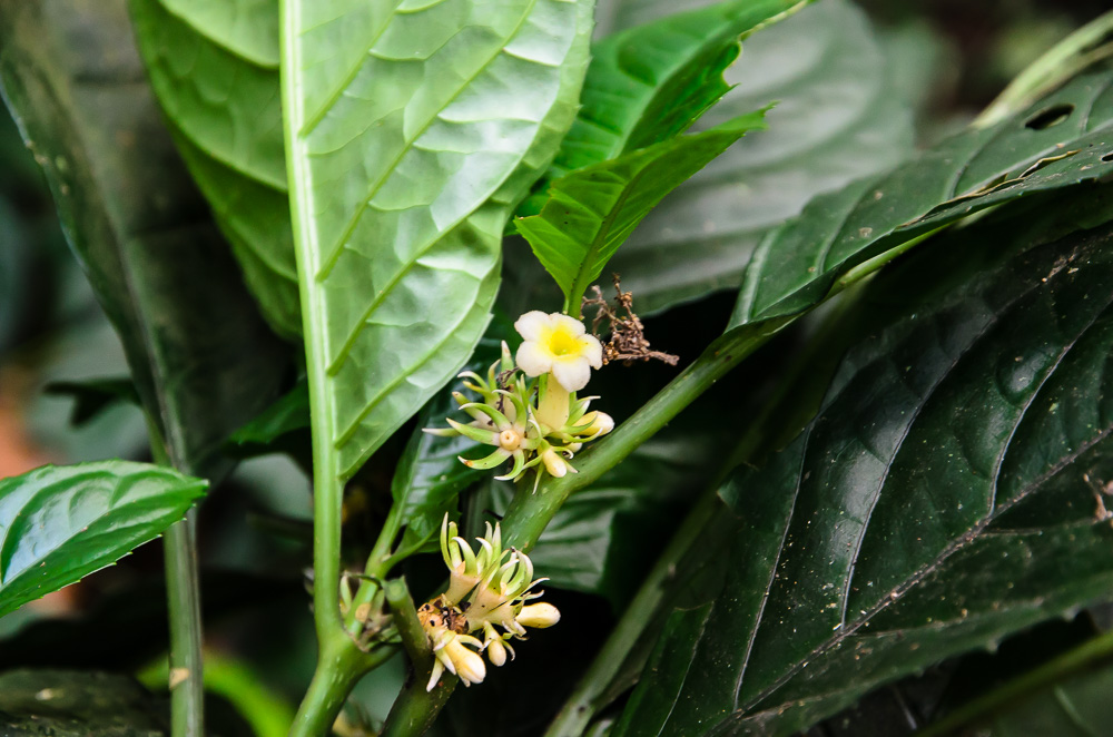 Silvianthus bracteatus (Carlemanniaceae). Voucher: Swenson et al. 1414. Vietnam, Ninh Bình Province, Cuc Phuong National Park: along the circular trail from visitor center (Bang), alt. 300 masl (20.34833 105.58111). Swedish Museum of Natural History expedition to Vietnam 2013, sponsored by National Geographic Global Exploration Fund Northern Europe. Photo: Johannes Lundberg